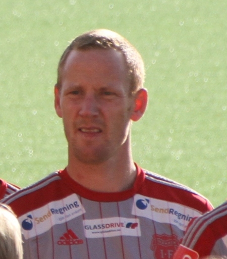 Strømmen IF football player (striker). Akershus, Norway.